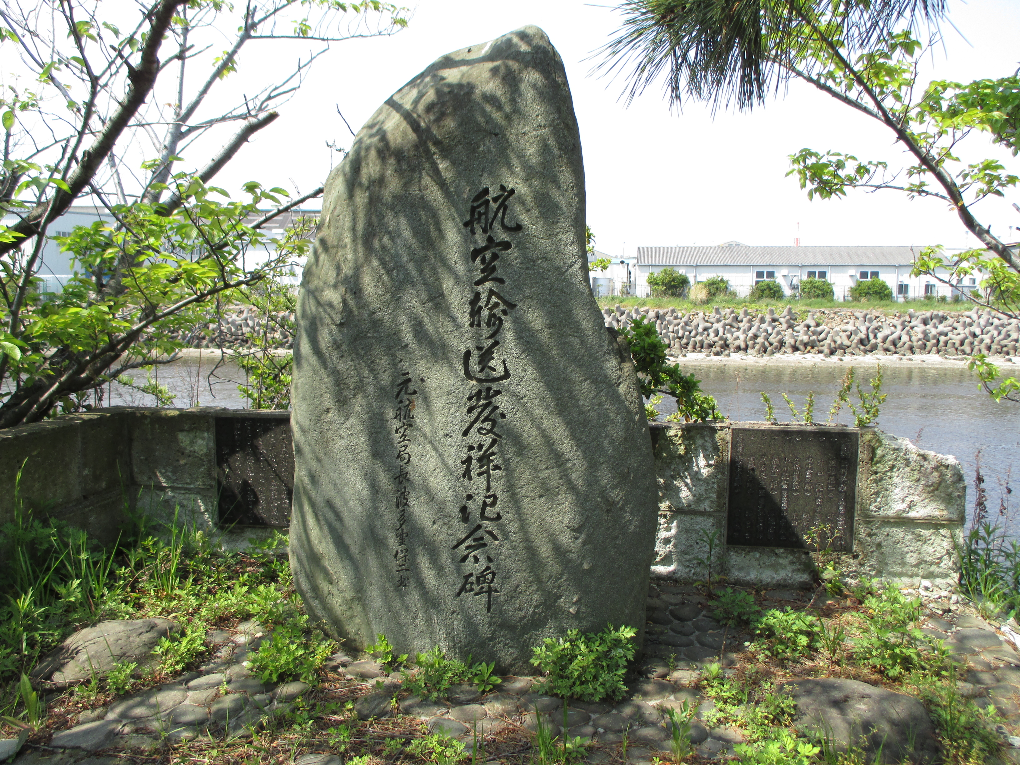 Birthplace of air transport monument